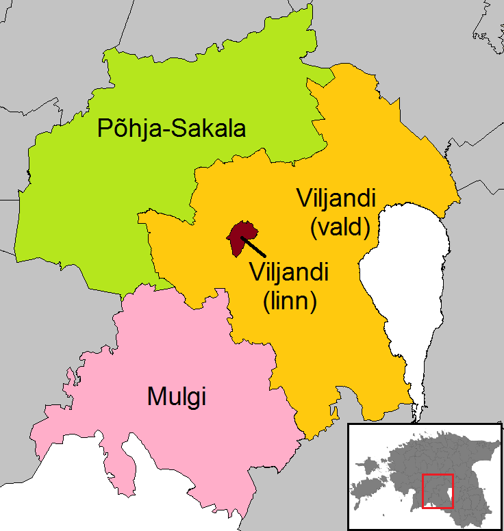 Map of the municipalities of Viljandi County after the Administrative Reform of Estonia in 2017.